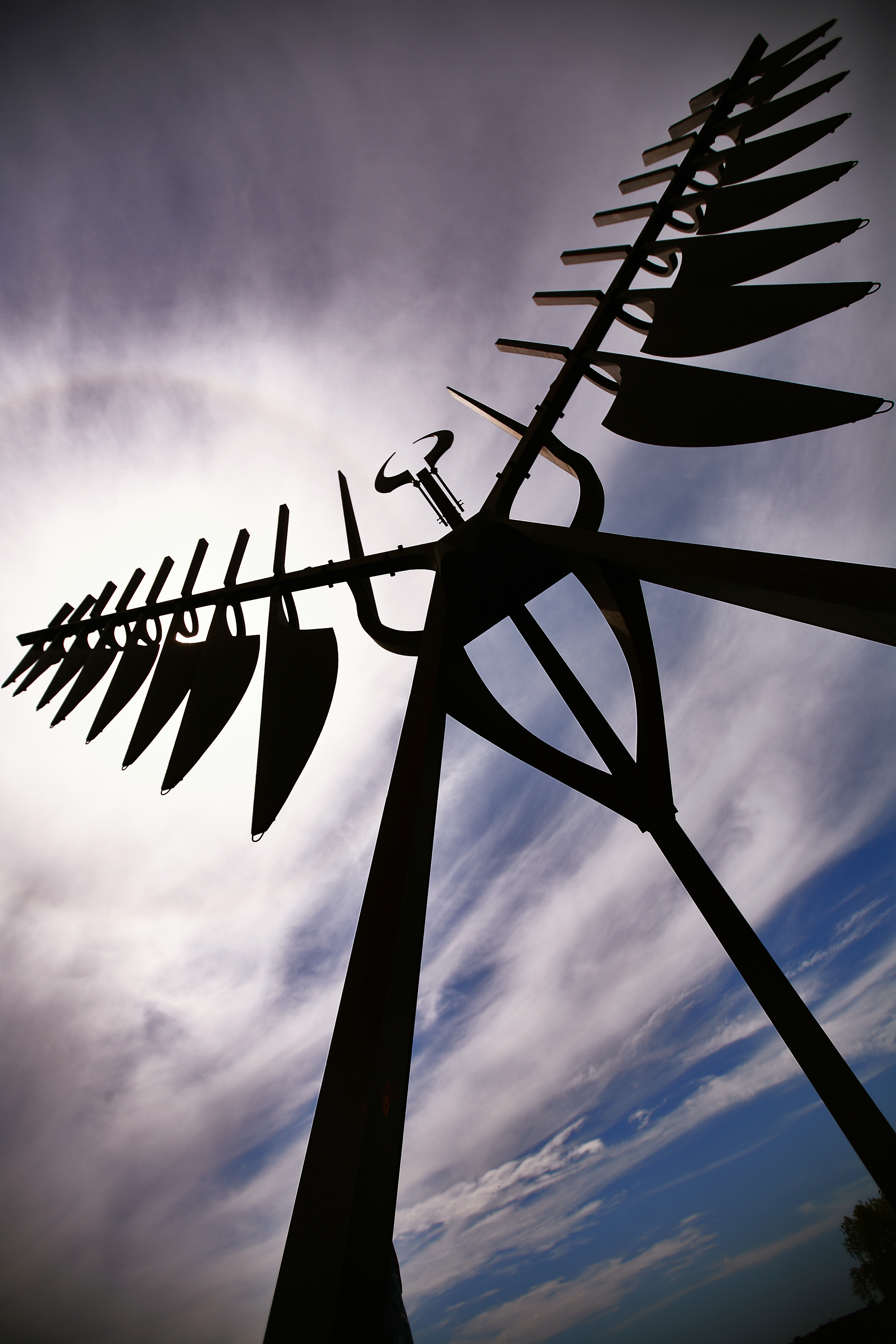 The Spiritcatcher by Ron Baird (1986) art installation in downtown Barrie.